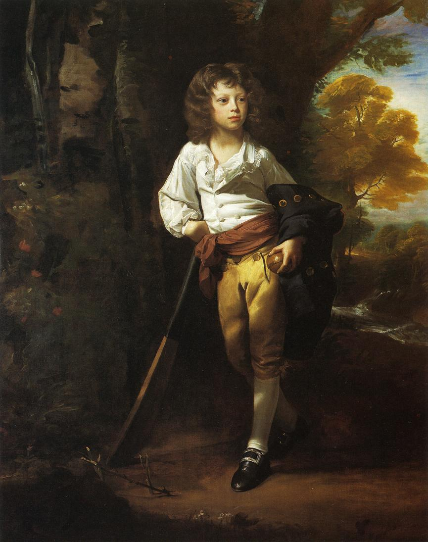 Richard Heber (1774–1833), book collector